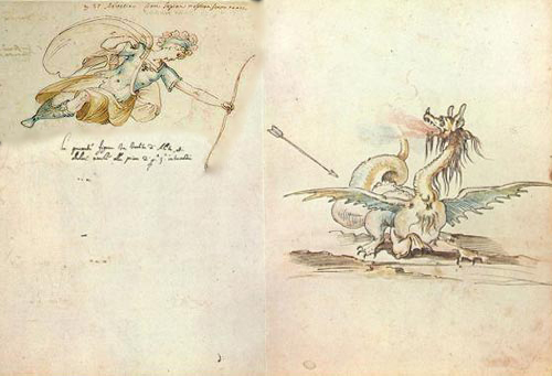 La pellegrina 1589 - Intermedio 3 - Il combattimento pitico d’Apollo 2